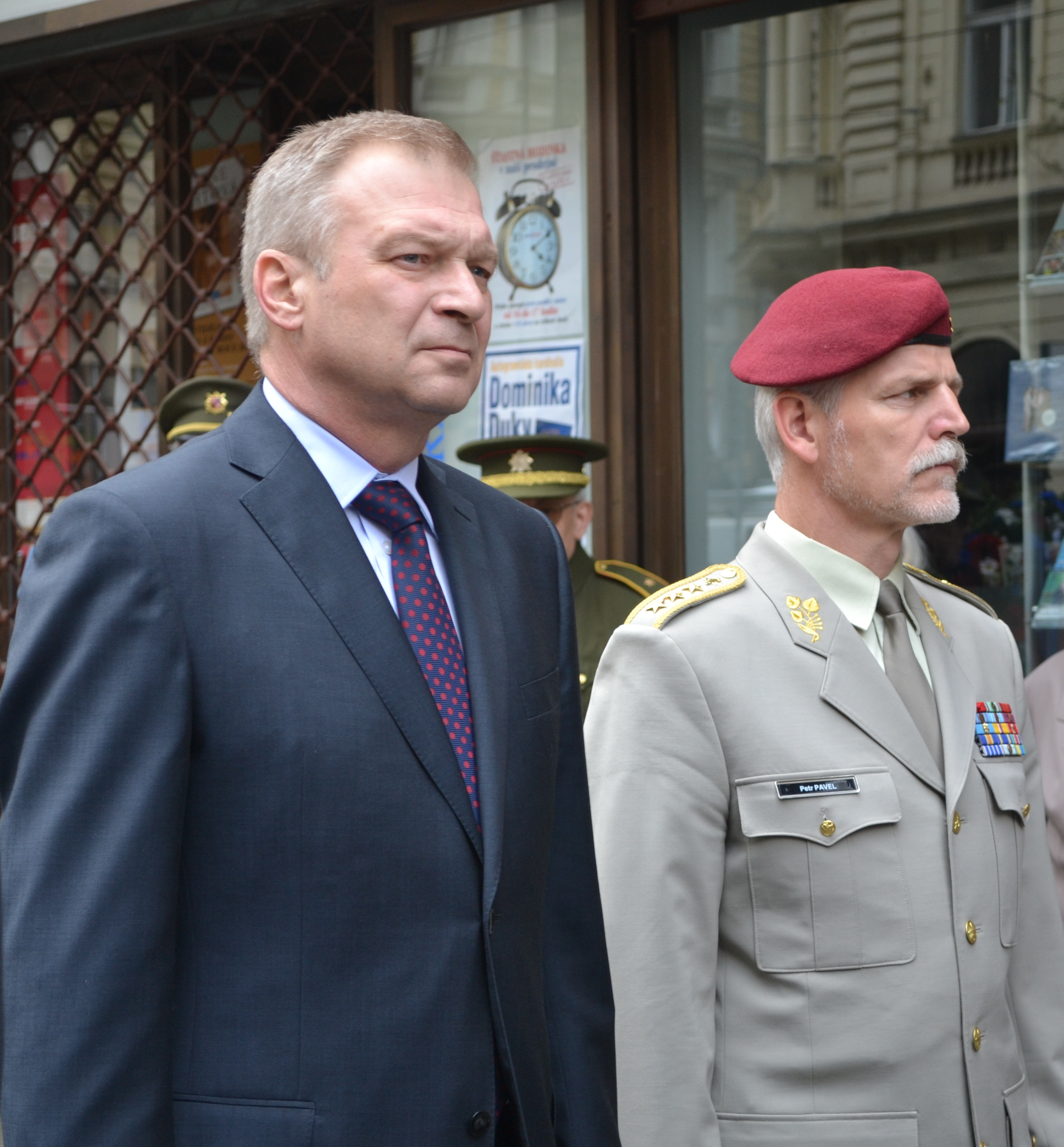 from left